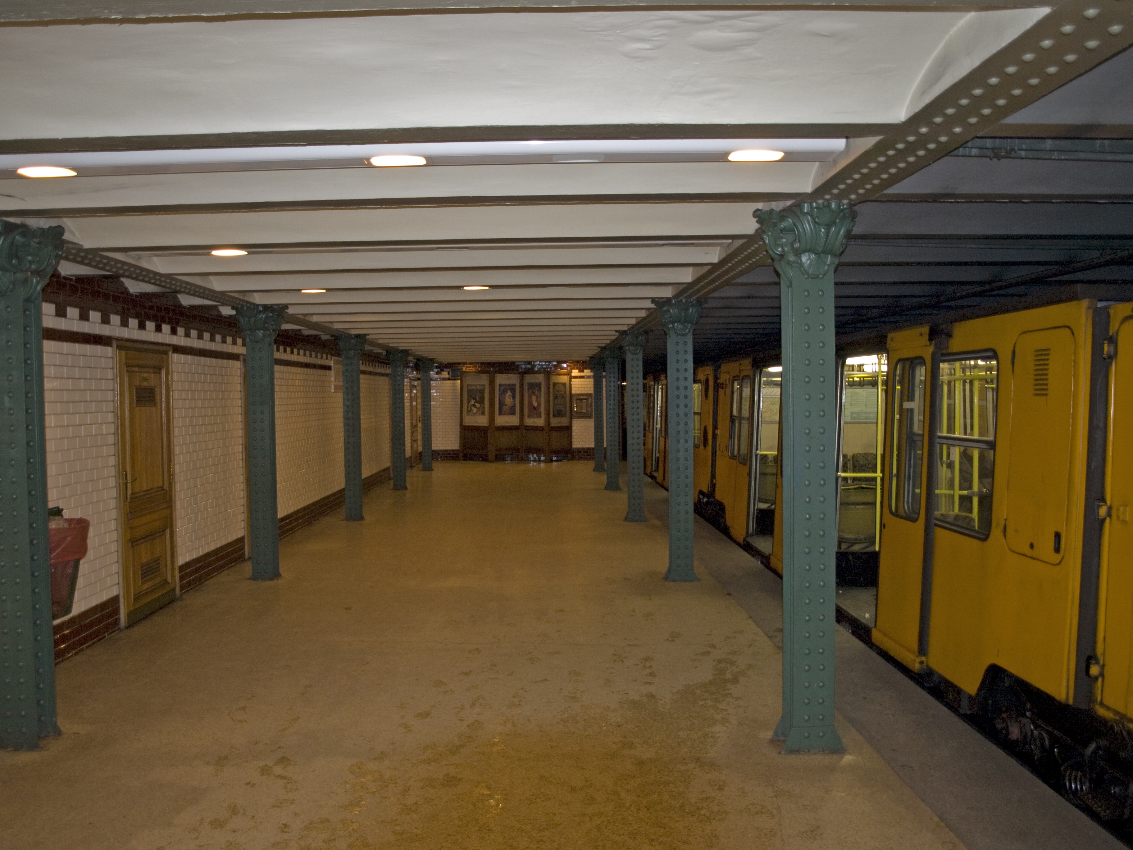 Patform and train at Vörösmarty tér metro station